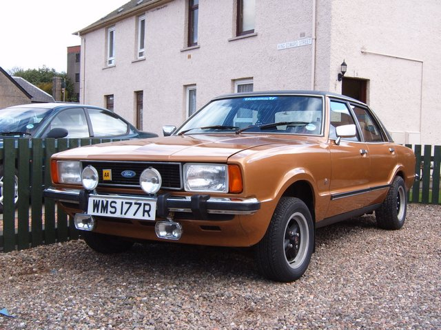 1976 mk4 Ford Cortina Ghia